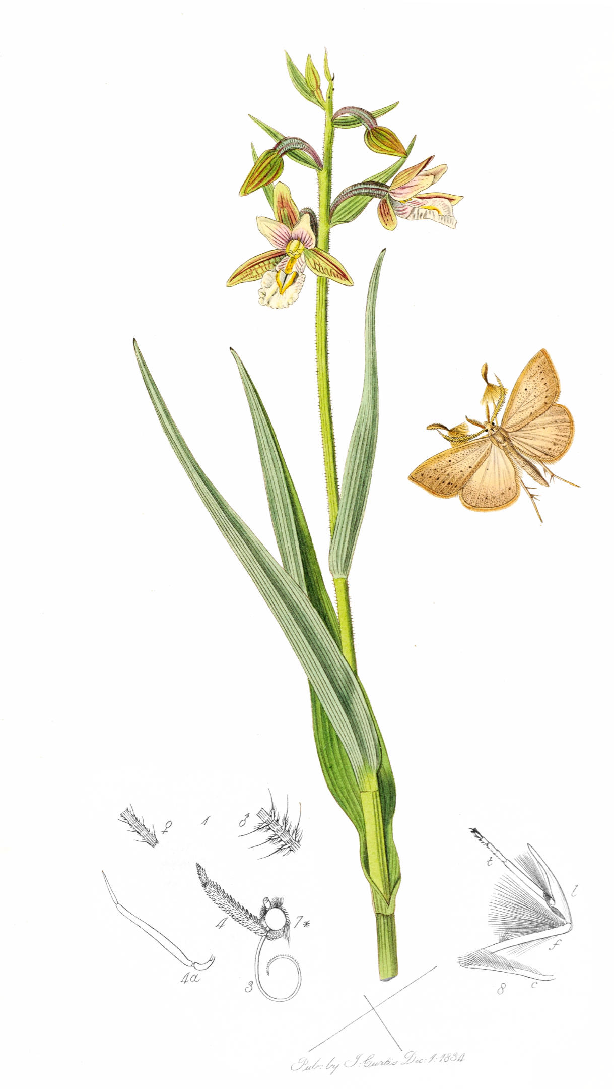 Plate 527 from British Entomology by John Curtis. Un-retouched scan except for the removal of paper toning. Marsh Fan-foot moth (Pyralis cribalis) with Marsh Helleborine (Epipcatis palustris) orchid.